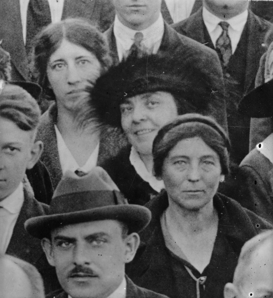 U.S. Department of Agriculture (USDA) botanists Agnes J. Quirk, Helen Morgenthau Fox (1884-1974), and Florence Hedges (1878-1956). Quirk was assistant to the senior plant pathologist, USDA, 1901-1927, and served as head of the laboratory, 1928-1948. Fox published widely on the topic of gardening with herbs. Hedges worked at USDA for much of her career.